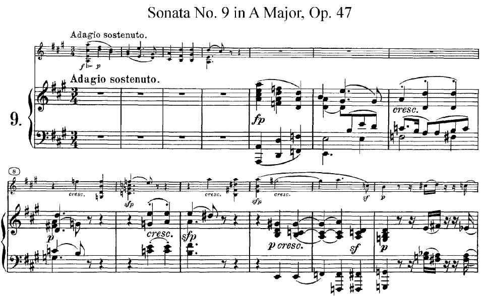 Scan from old edition fo Beethoven Kreutzer Sonata for violin & piano